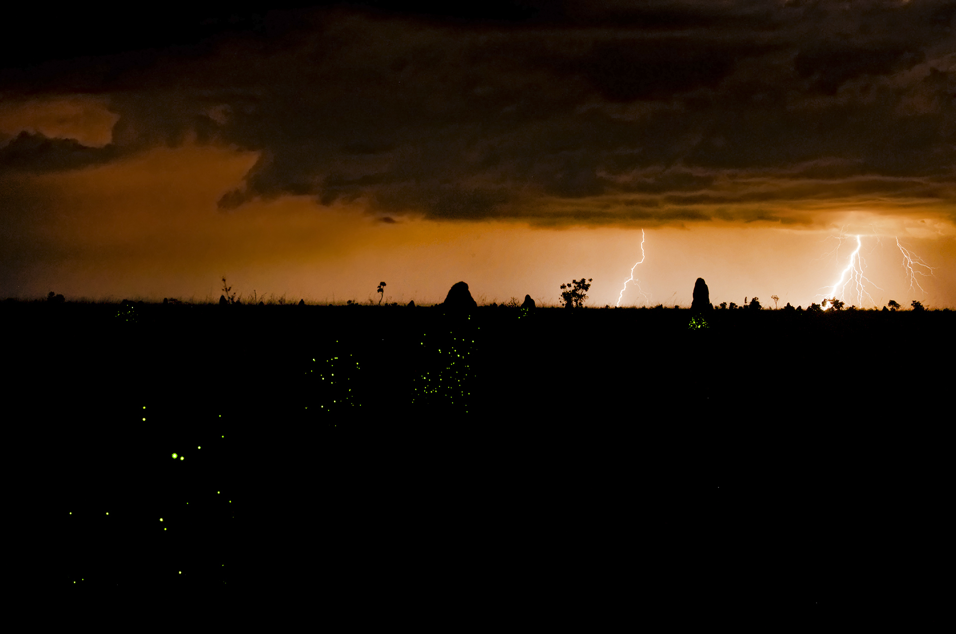 Night photo showing termite mounds with bioluminescent larvae of Pyrearinus termitilluminans. At far thunderbolts.